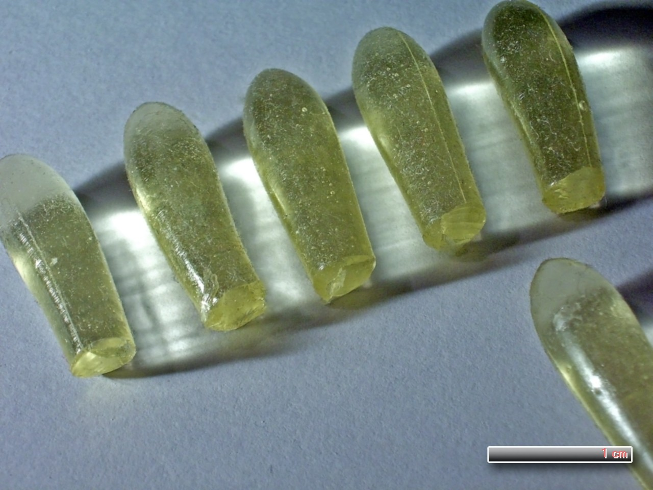 Glycerol-gelatin suppositories, on a sheet of paper, with scale / measurement